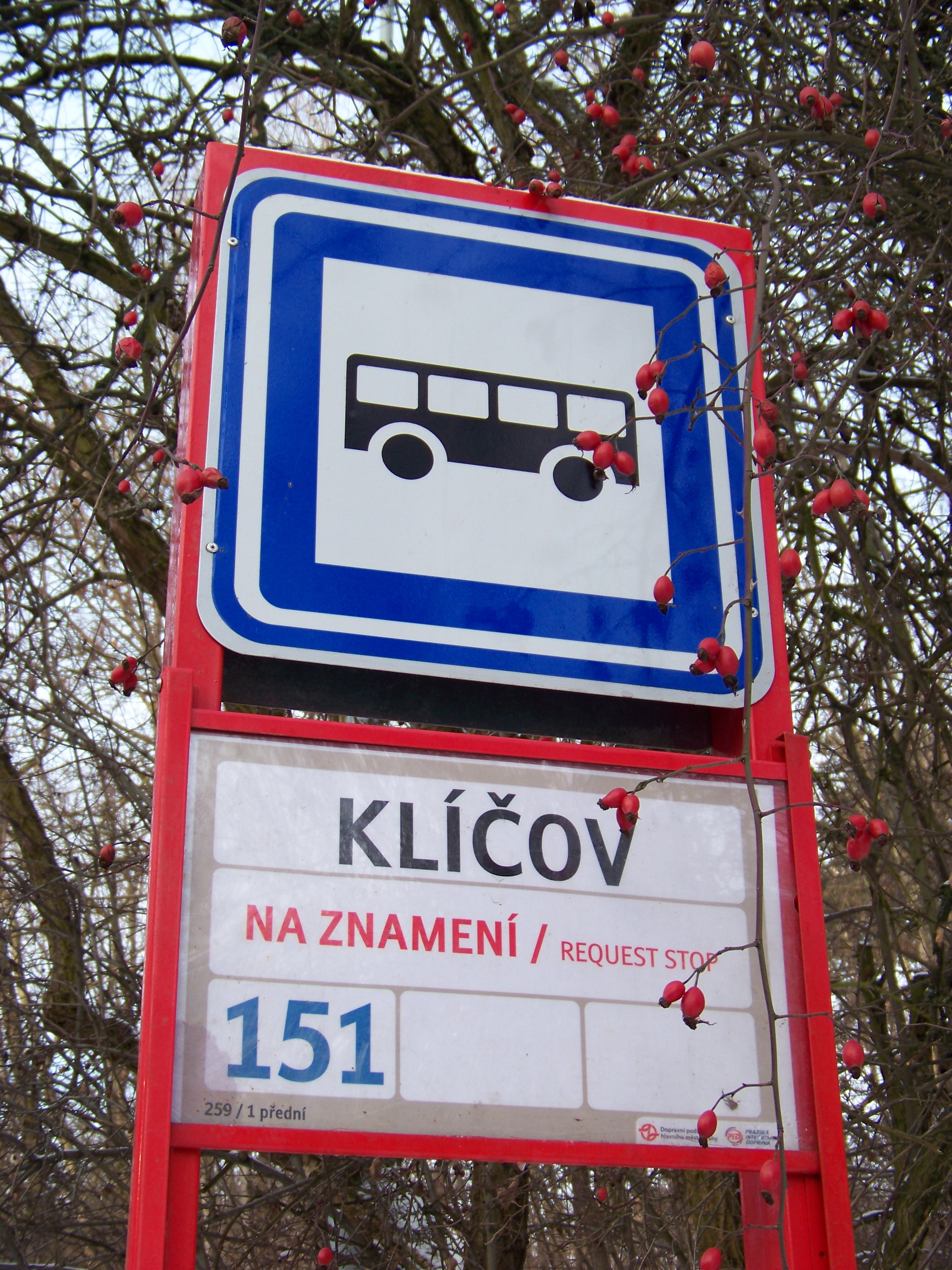 Prague-Vysočany, the Czech Republic. Ke Klíčovu street, Klíčov, a bus stop sign.